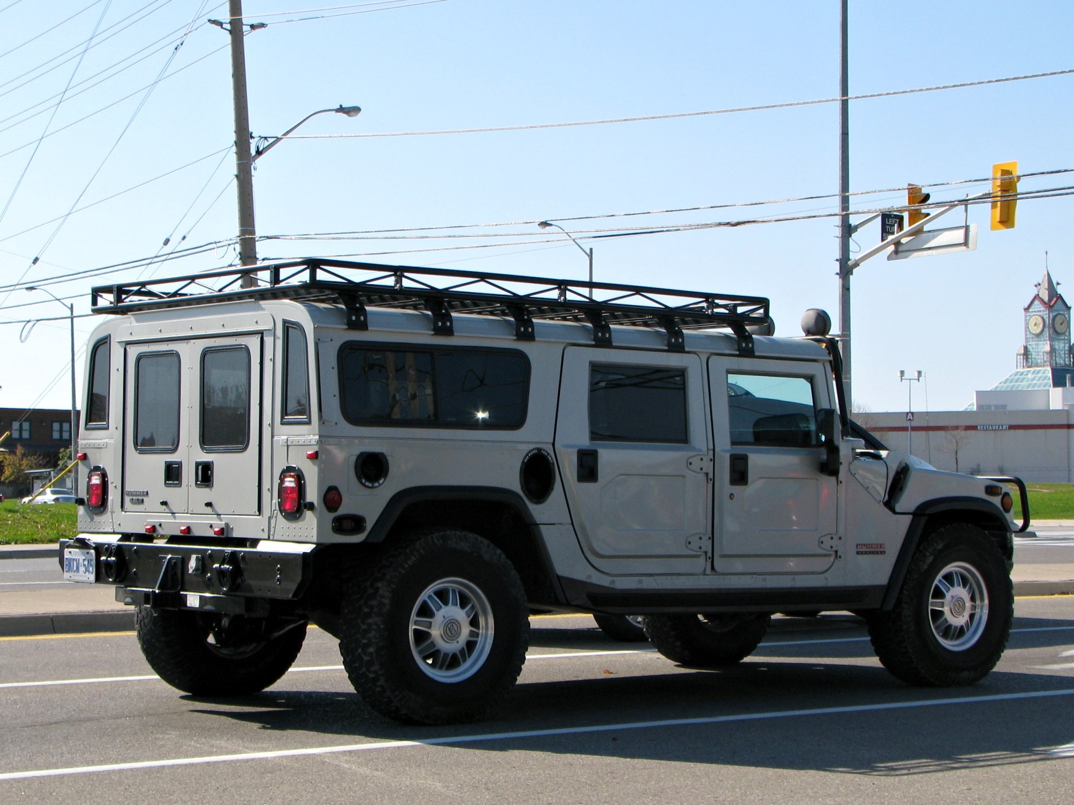 What a slow beast!